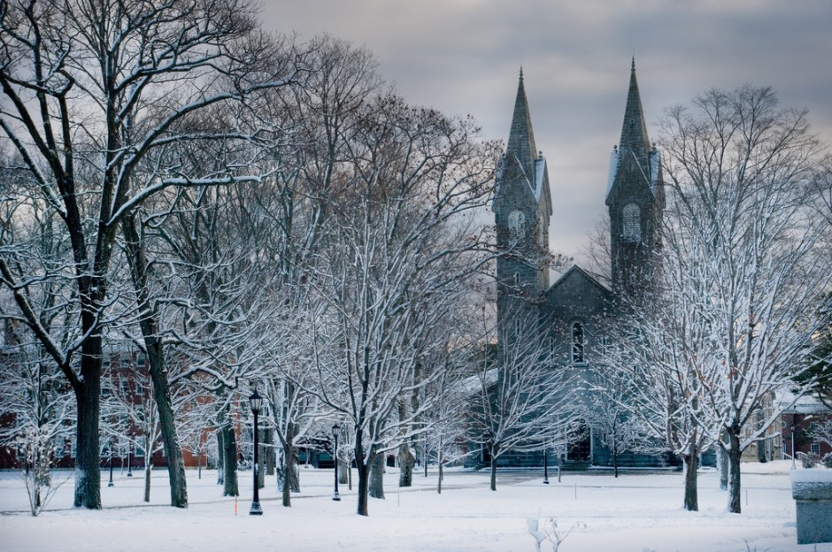 Bowdoin College Campus; The Chapel